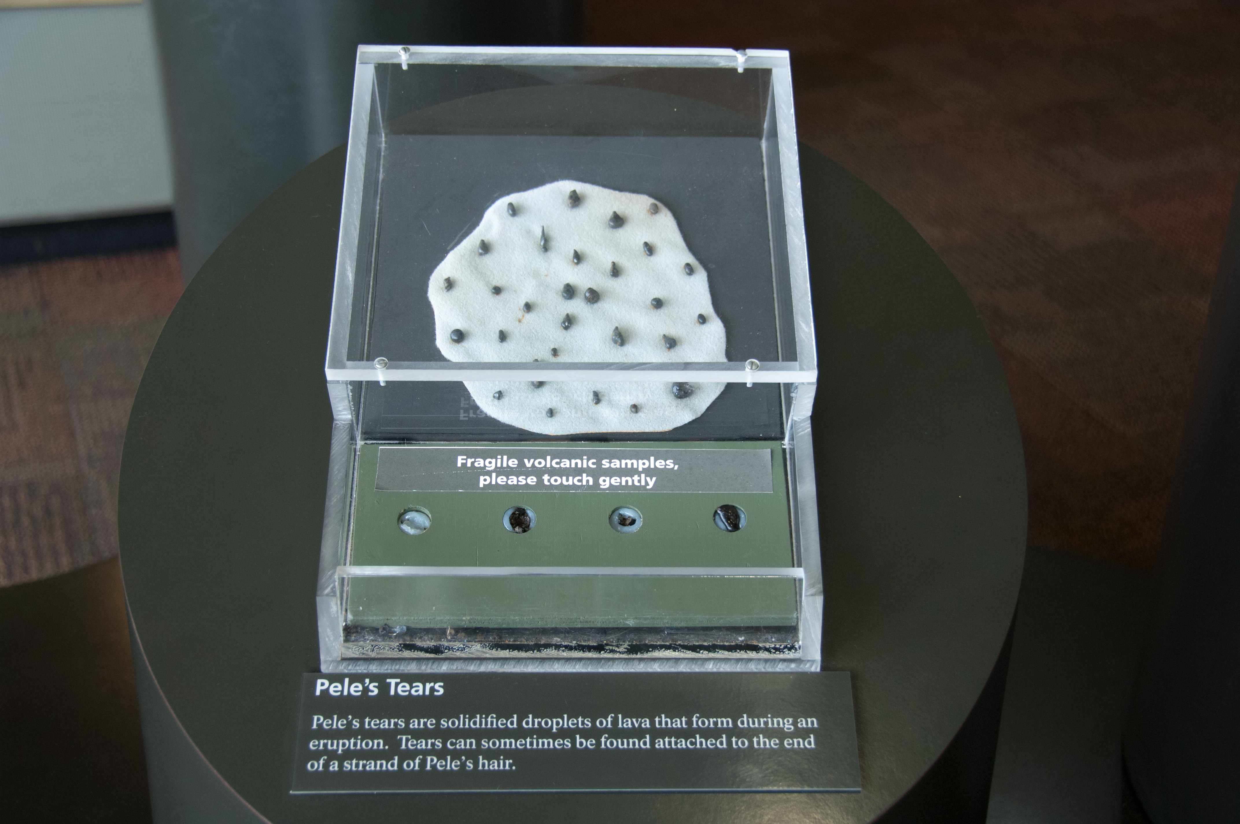 Pele's Tears are solidified droplets of lava that form during an eruption.